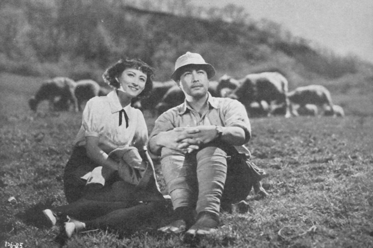 Starring in Makiba monogatari (牧場物語; „Tale of a Pasture”) are Enami Kazuko as the pure-hearted Sekiguchi Kyōko and Ōhinata Den playing Hirayama Shigehito.